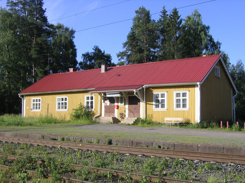 Hammaslahti railway station in Pyhäselkä, Finland.